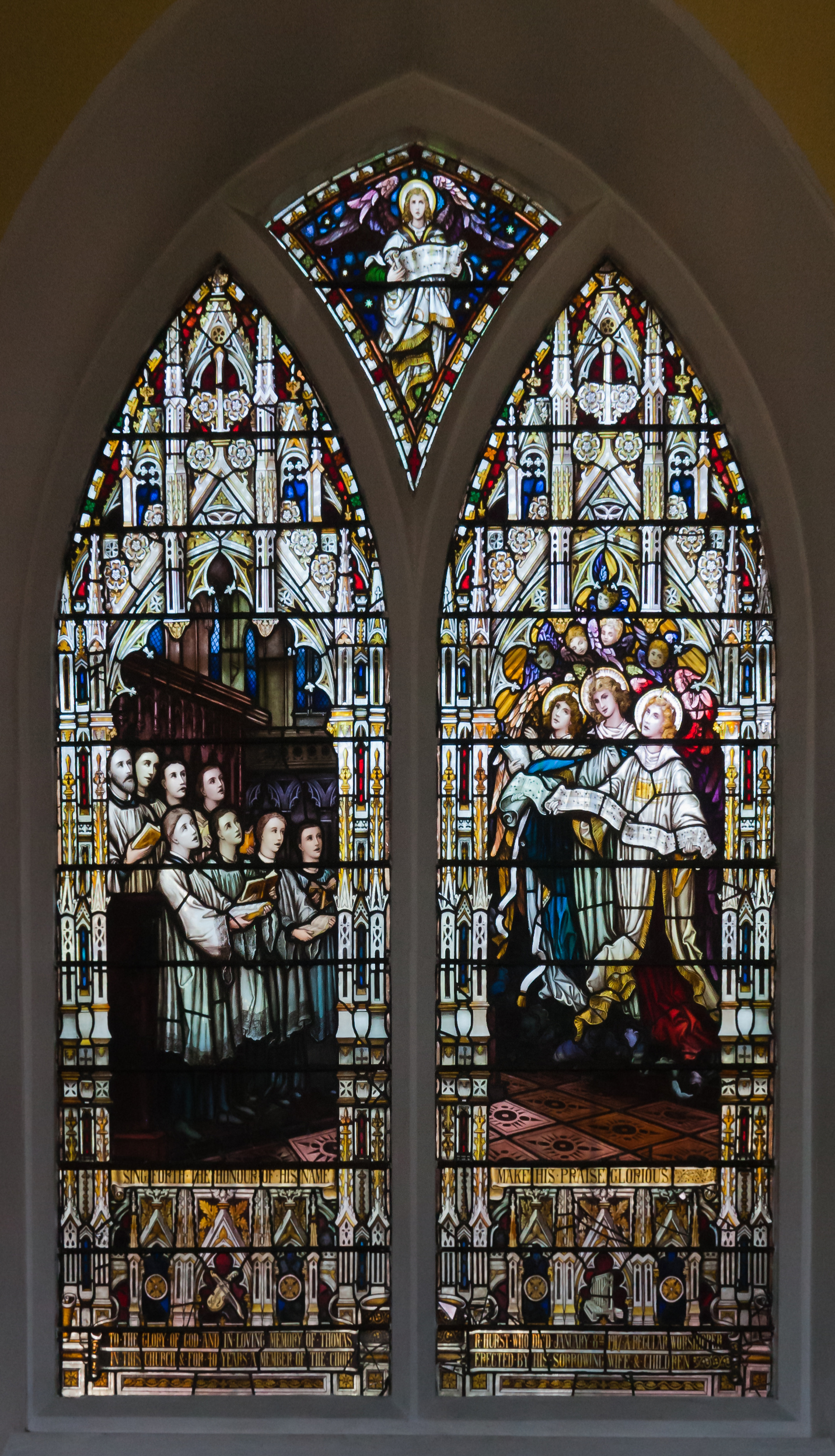 Second north window with stained glass depicting Psalm 66:2. The central inscriptions read: Sing Forth The Honour Of His Name (left side) and Make His Praise Glorious (right side). Created by Watson & Co., Youghal, see gloine.ie. Inscription: To the glory of God and in loving memory of Thomas R. Hurst who died January 8th 1917: a regular worshipper in this church for 40 years & member of the choir. Erected by his sorrowing wife & children.